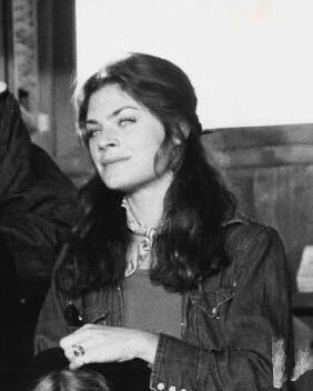 Meg Foster in Sunshine (1975)